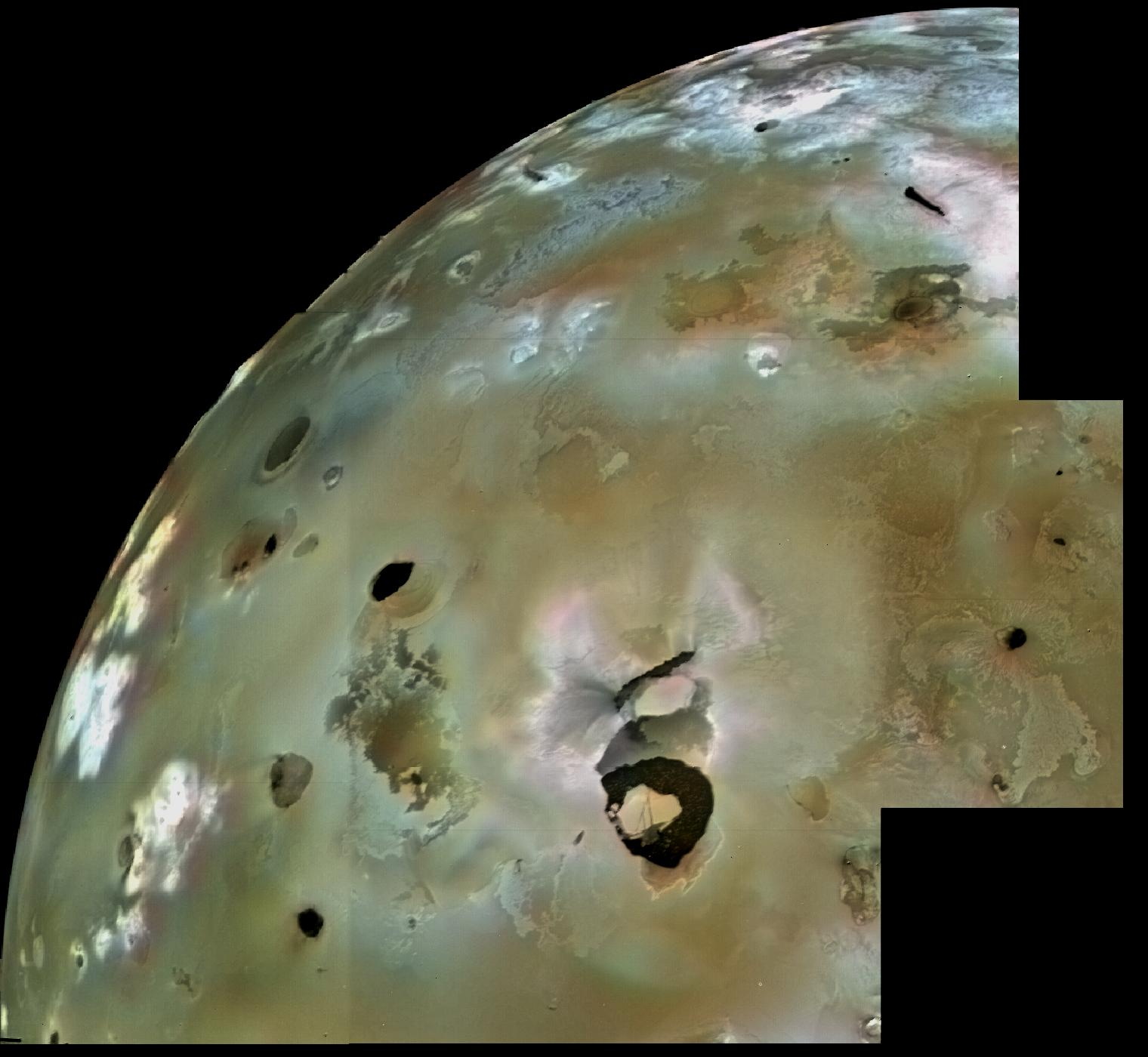 A huge area of Io's volcanic plains is shown in this Voyager 1 image mosaic. Numerous volcanic calderas and lava flows are visible here. Loki Patera, an active lava lake, is the large shield-shaped black feature. Heat emitted from Loki can be seen through telescopes all the way from Earth. These telescopic observations tell us that Loki has been active continuously (or at least every time astronomers have looked) since the Voyager 1 flyby in March 1979. The composition of Io's volcanic plains and lava flows has not been determined, but they could consist dominantly of sulfur with surface frosts of sulfur dioxide or of silicates (such as basalts) encrusted with sulfur and sulfur dioxide condensates. The bright whitish patches probably consist of freshly deposited SO2 frost. The black spots, including Loki, are probably hot sulfur lava, which may remain molten by intrusions of molten silicate magma, coming up from deeper within Io. The ultimate source of heat that keeps Io active is tidal frictional heating due to the continual flexure of Io by the gravity of Jupiter and Europa, another of Jupiter's satellites.